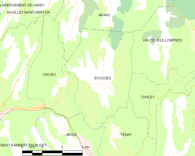 Map of French commune: Évosges Map commune FR insee code 01155.png